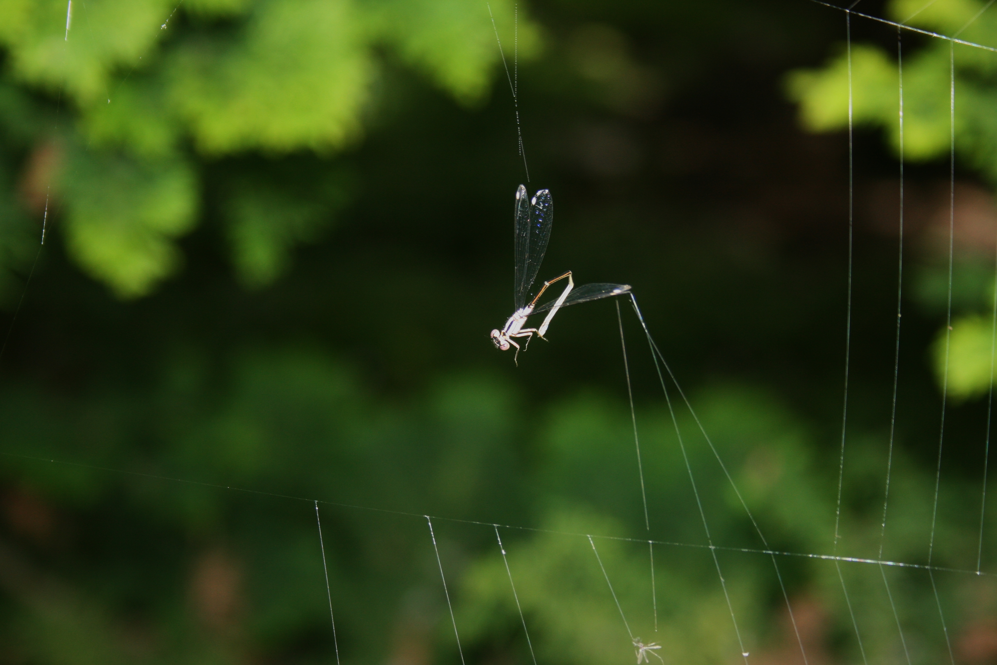 A still alive damselfy in a spider web